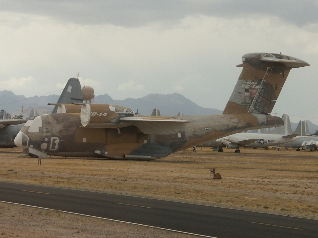 A U.S. Air Force Boeing YC-14A-BN aircraft (s/n 72-1874) at the Aerospace Maintenance and Regeneration Group (AMARG), Davis-Monthan-Air Force Base, Arizona (USA) in 2006. This aircraft was retired as CW0001 on 1 April 1980.